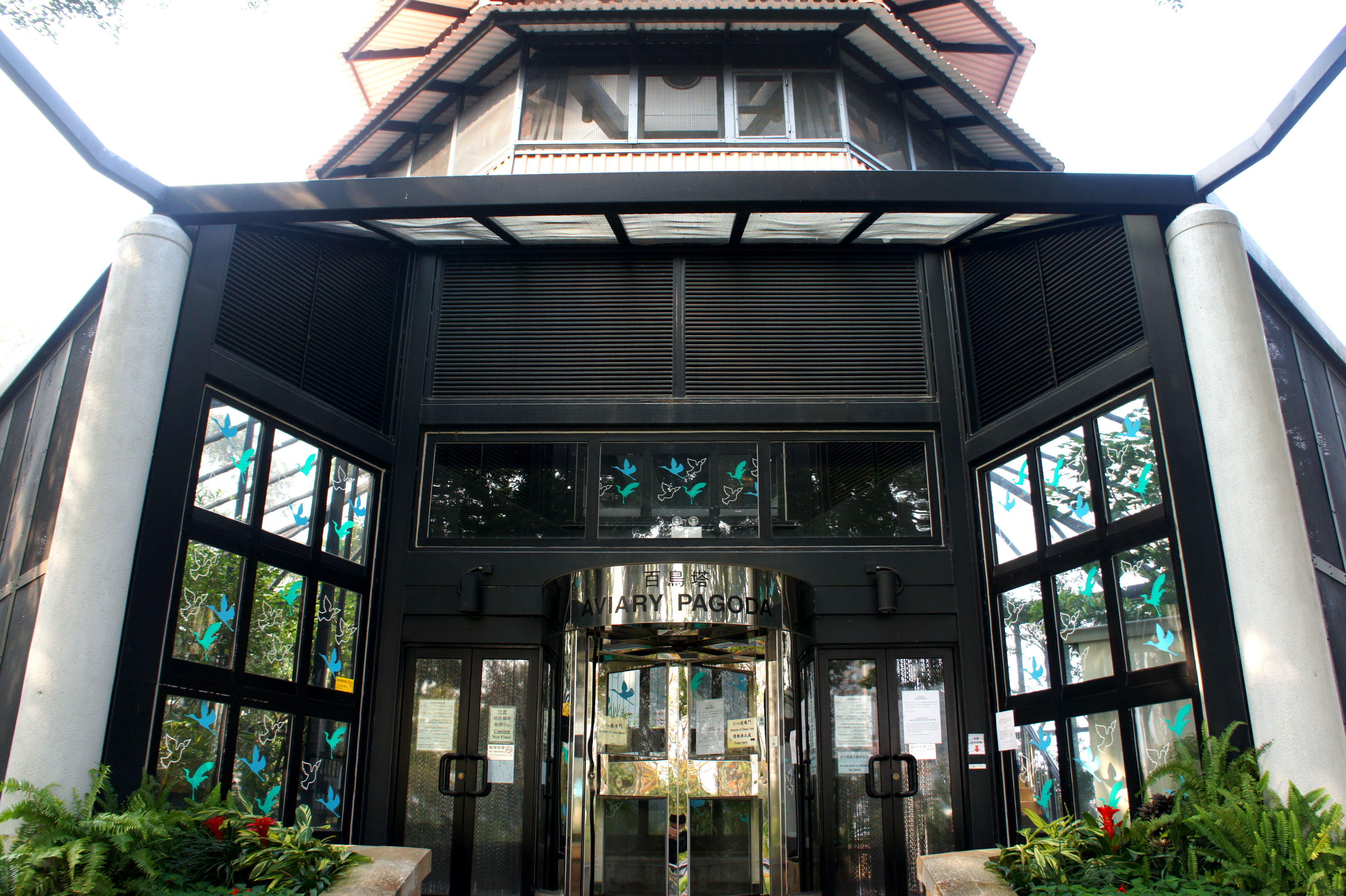 Entrance of the Aviary Pagoda, Yuen Long Park, New Territories, Hong Kong.